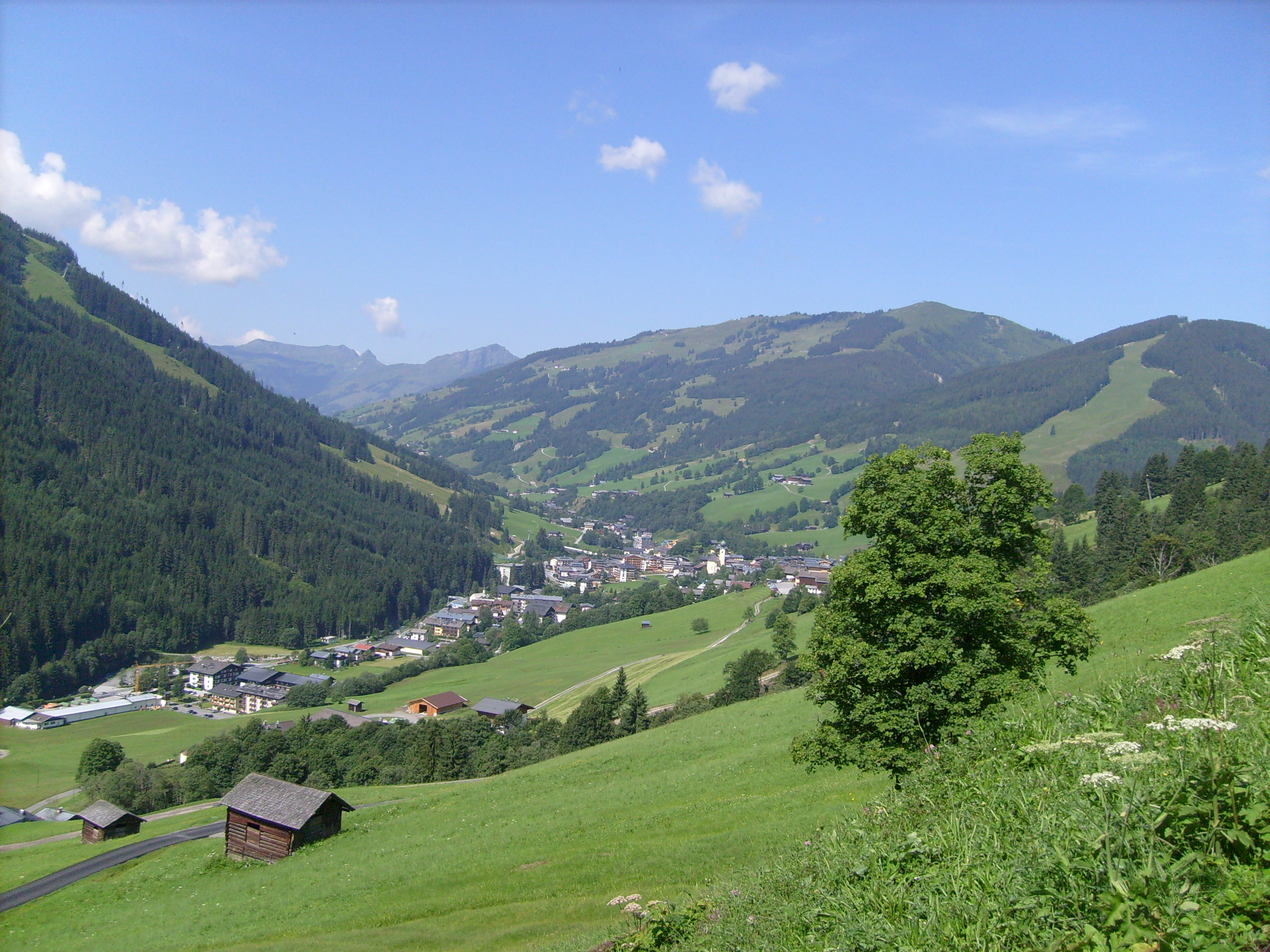 Saalbach, Salzburg/Austria from a hiking trail on the "Kohlmaiskopf"